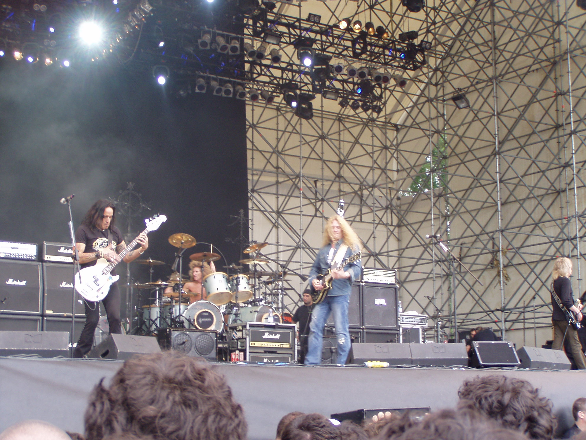 I Thin Lizzy al Gods of Metal 2007